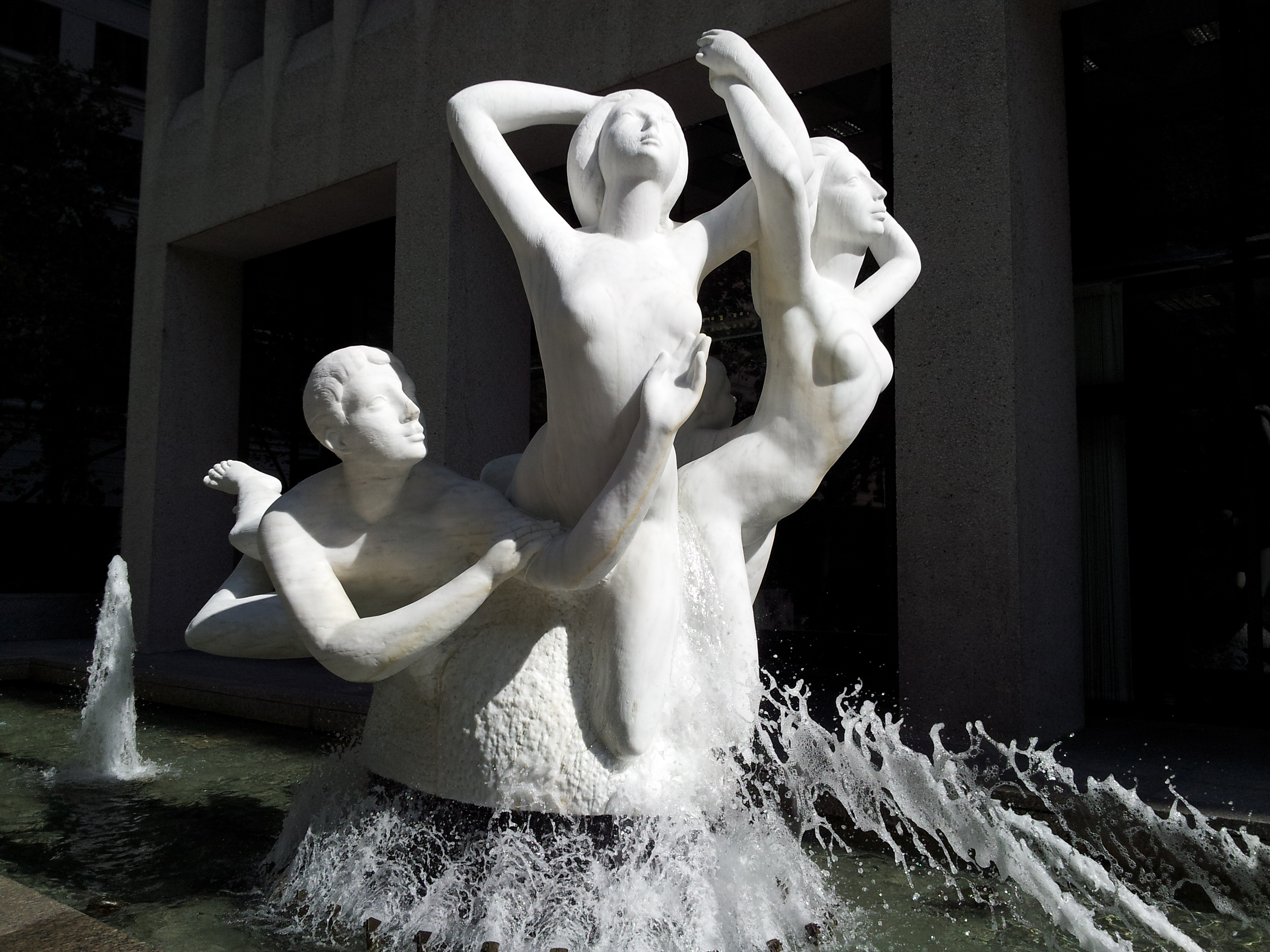 The Quest sculpture, Portland, Oregon; by Alexander von Svoboda